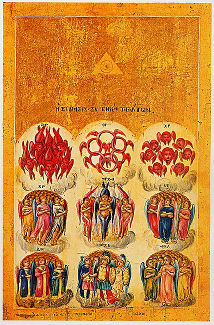 Icon of Nine orders of angels (Greece, 18 c.?) depicted with an illuminated triangle, a symbol of the Trinity